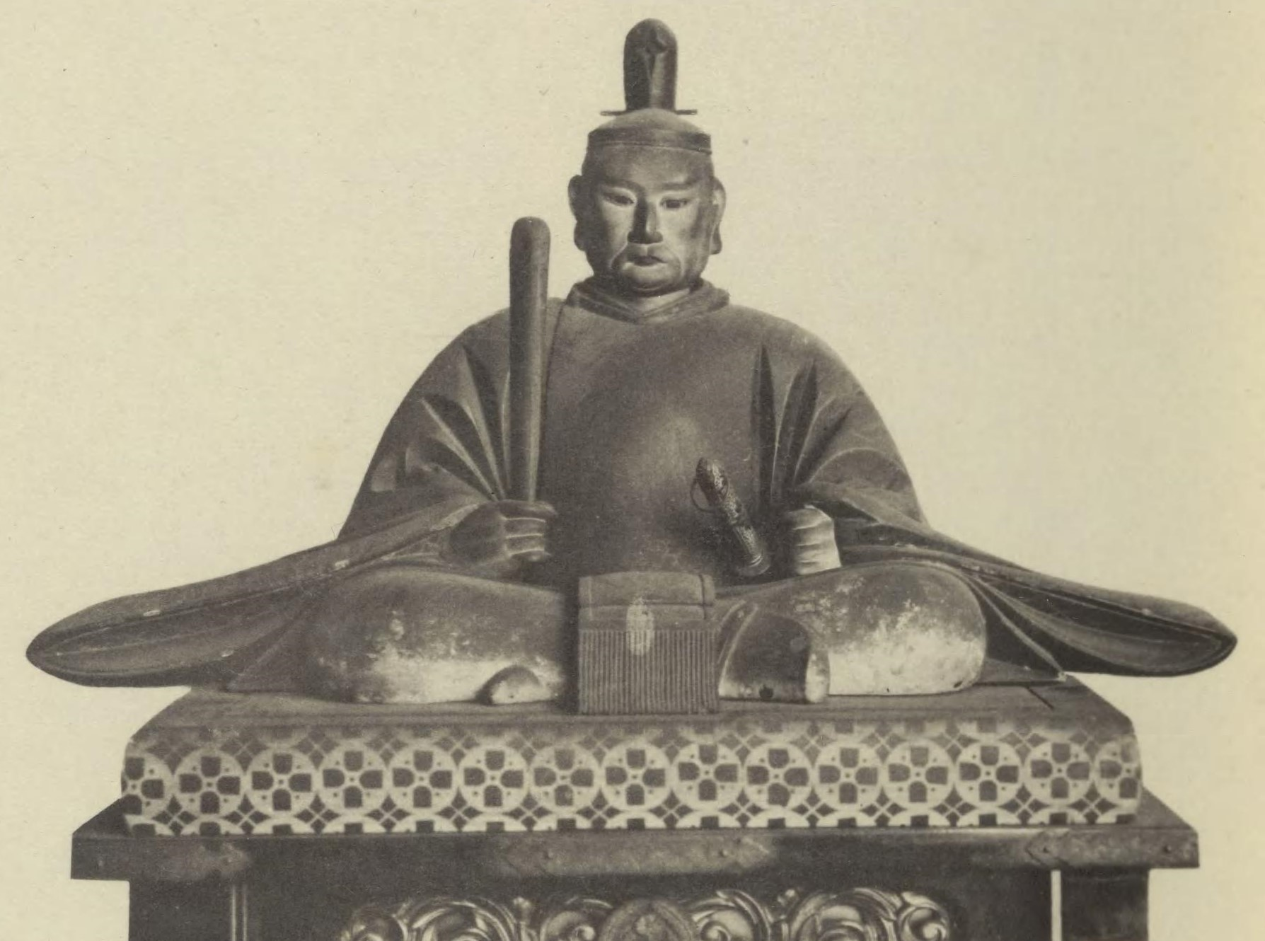 A wooden statue of Hirate Masahide at Seishū-ji, Nagoya, Aichi prefecture.